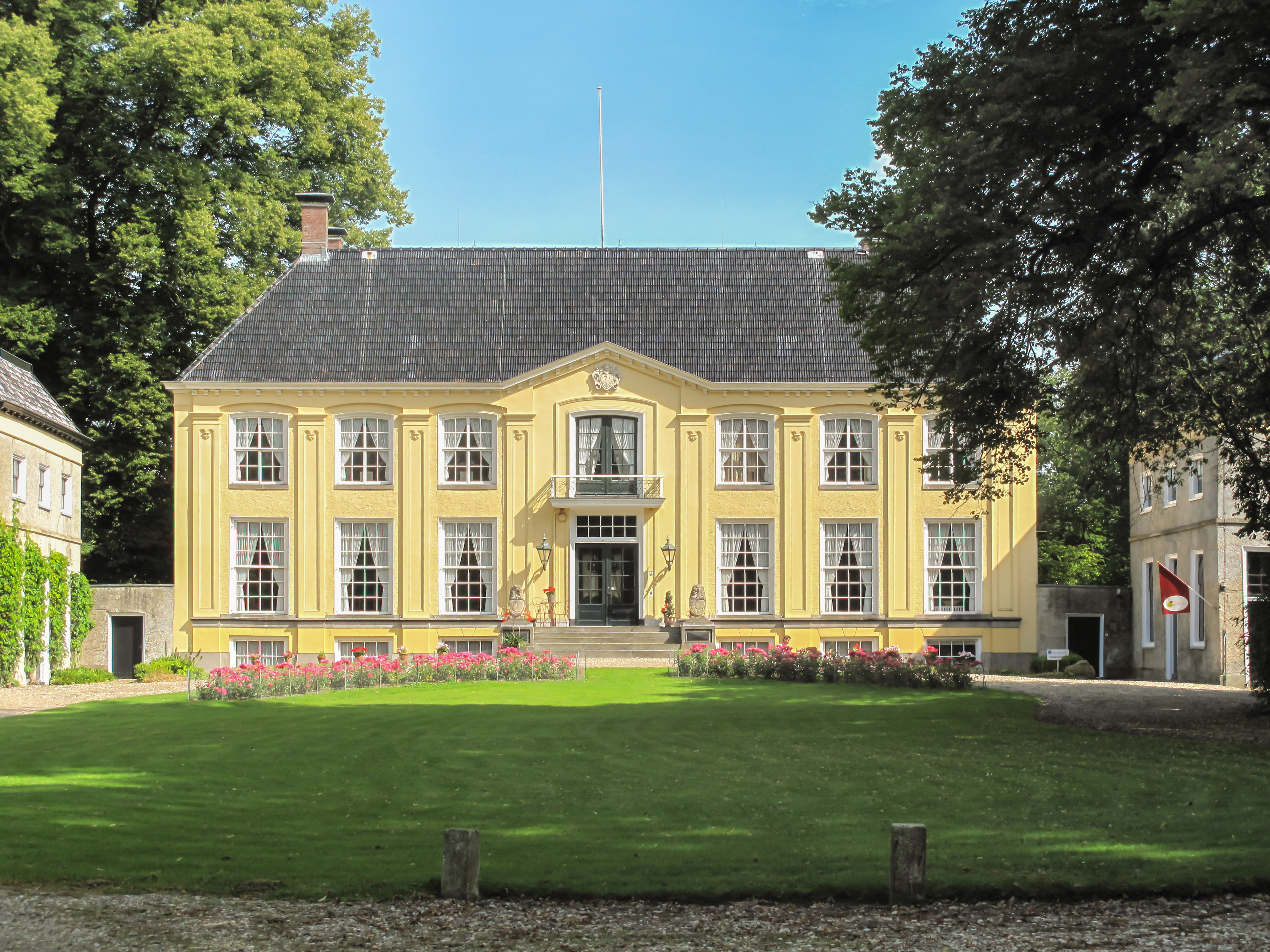 Veenklooster, country house/castle: de Fogelsangh State